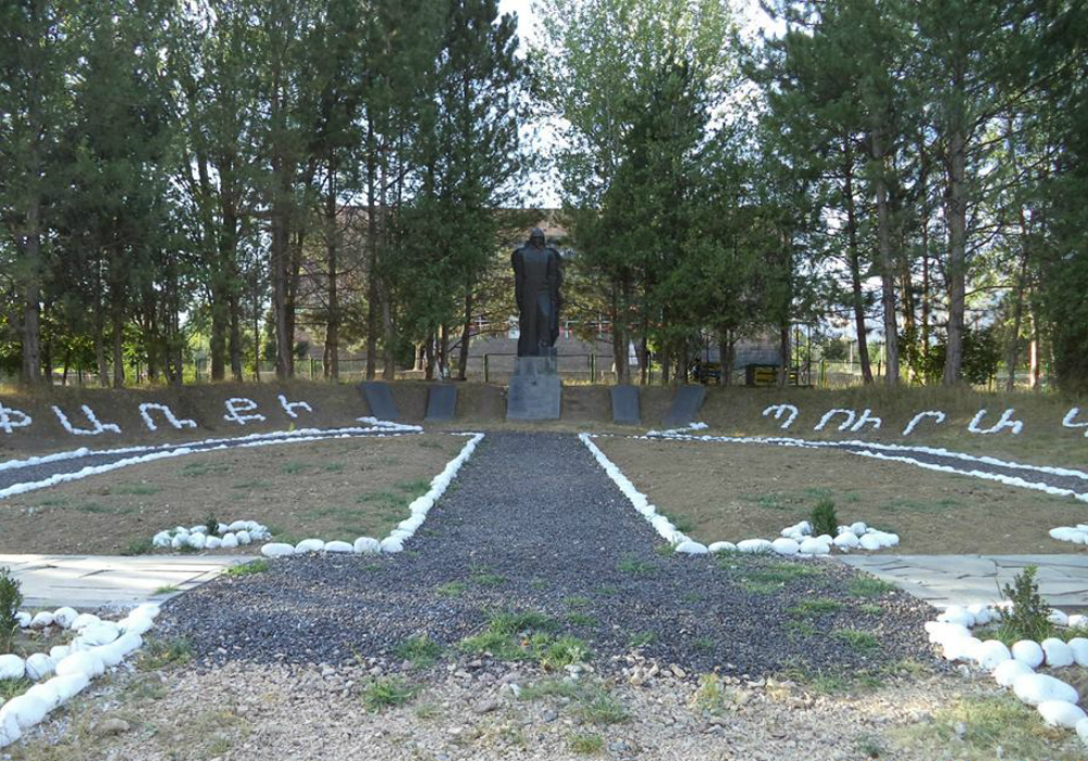 Glory park in Rin